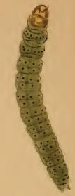 Stainton’s Natural History of the Tineina (1855–1873): Agonopterix angelicella